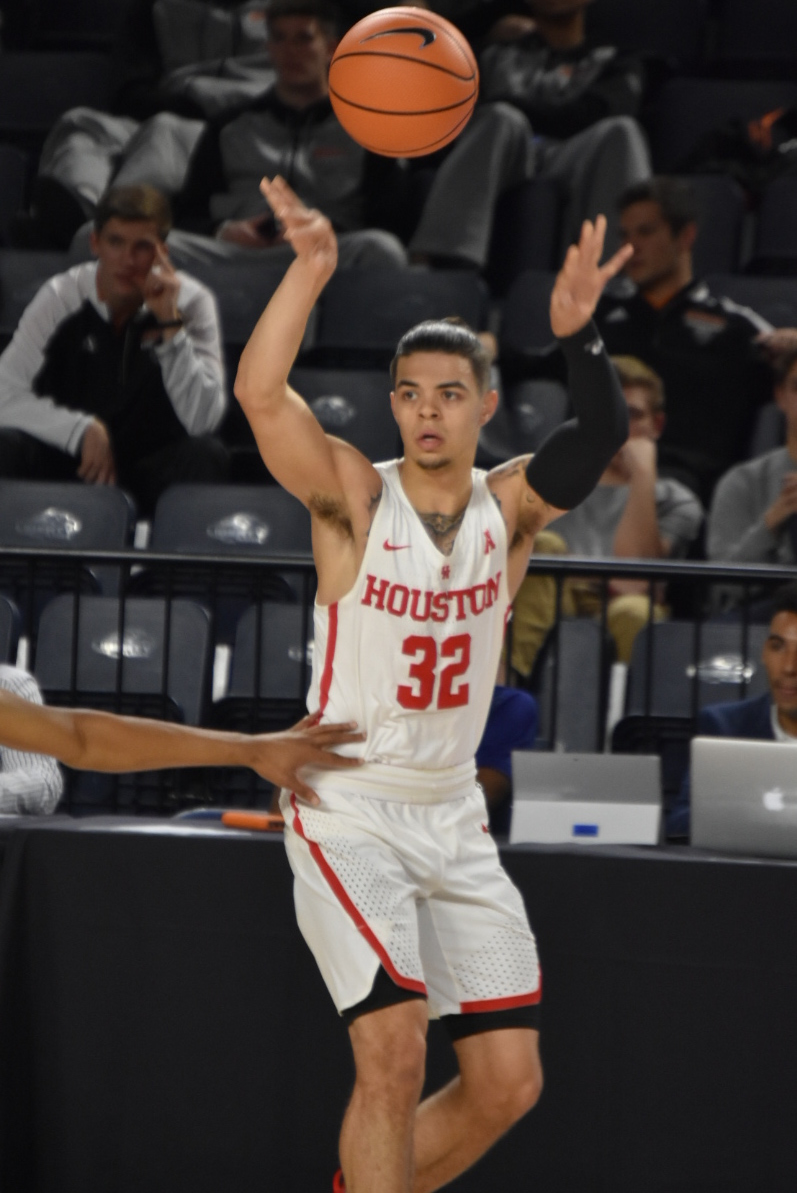 The 2nd game of the 2017 Paradise Jam featured the Drexel Dragons against the Houston Cougars